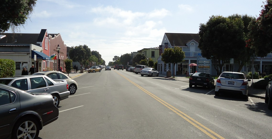 Main street in Half Moon Bay, California